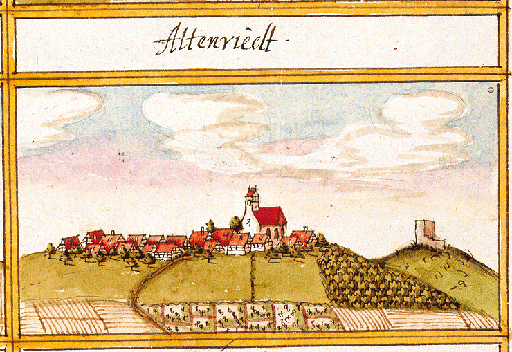 View of Altenriet from the forest register books created by Andreas Kieser